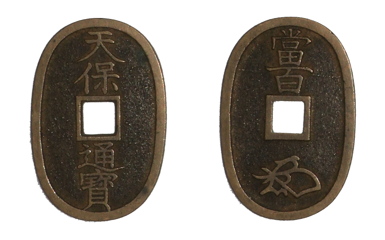 Tenpo-tsuho-chokaku